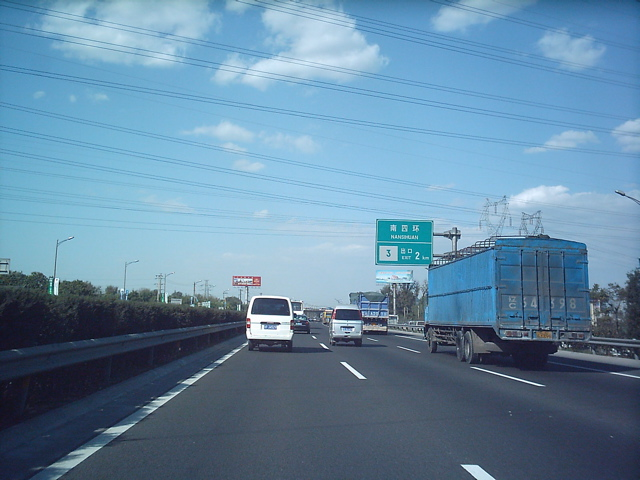 Jingkai Expressway near S 4th Ring Rd (Oct 2004). DF08 2004 image.